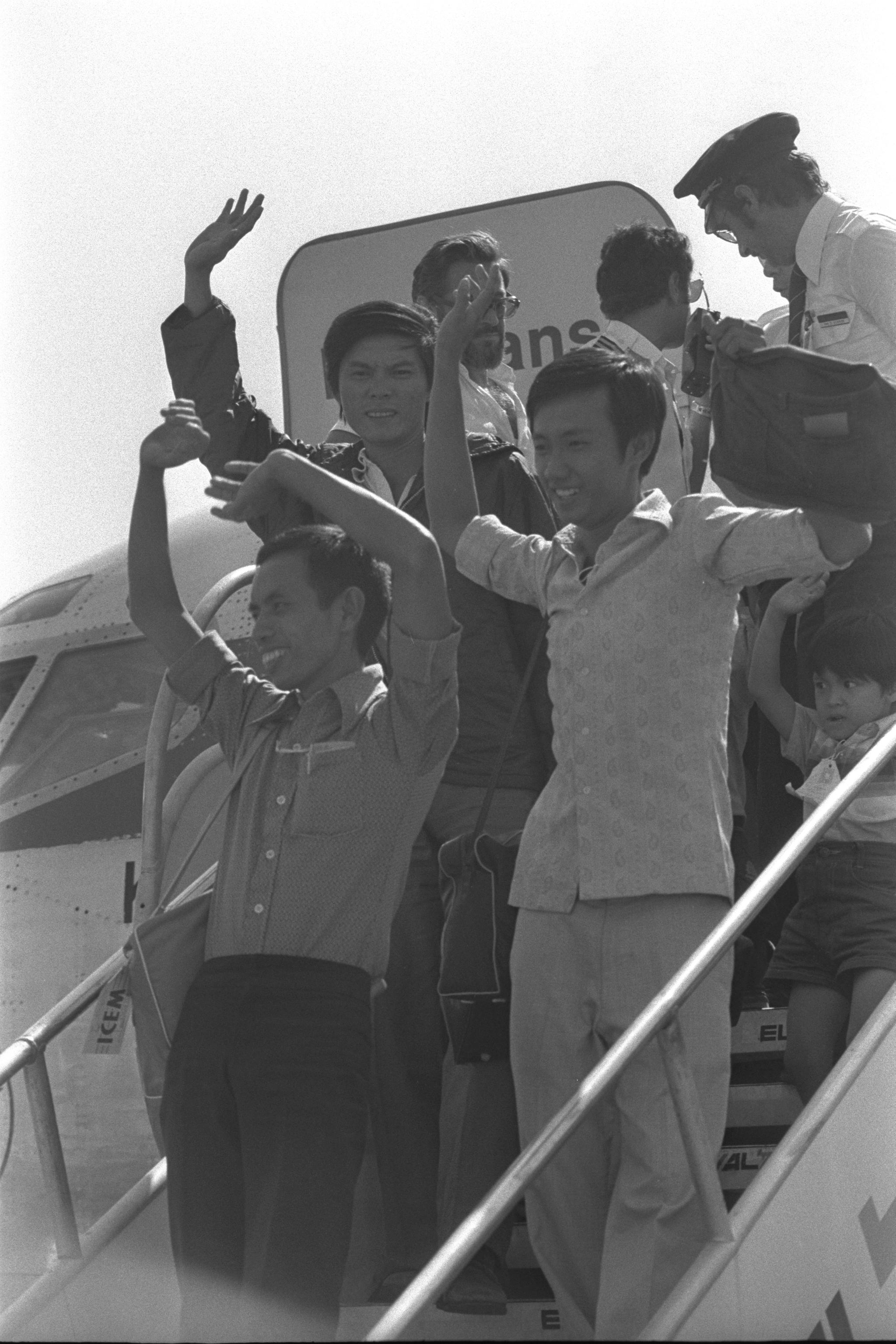 Vietnamese refugees happily waving to the welcoming crowd at Ben Gurion Airport, via lufthansa, after rescued by Israeli freighter in Southeast Asian Waters.